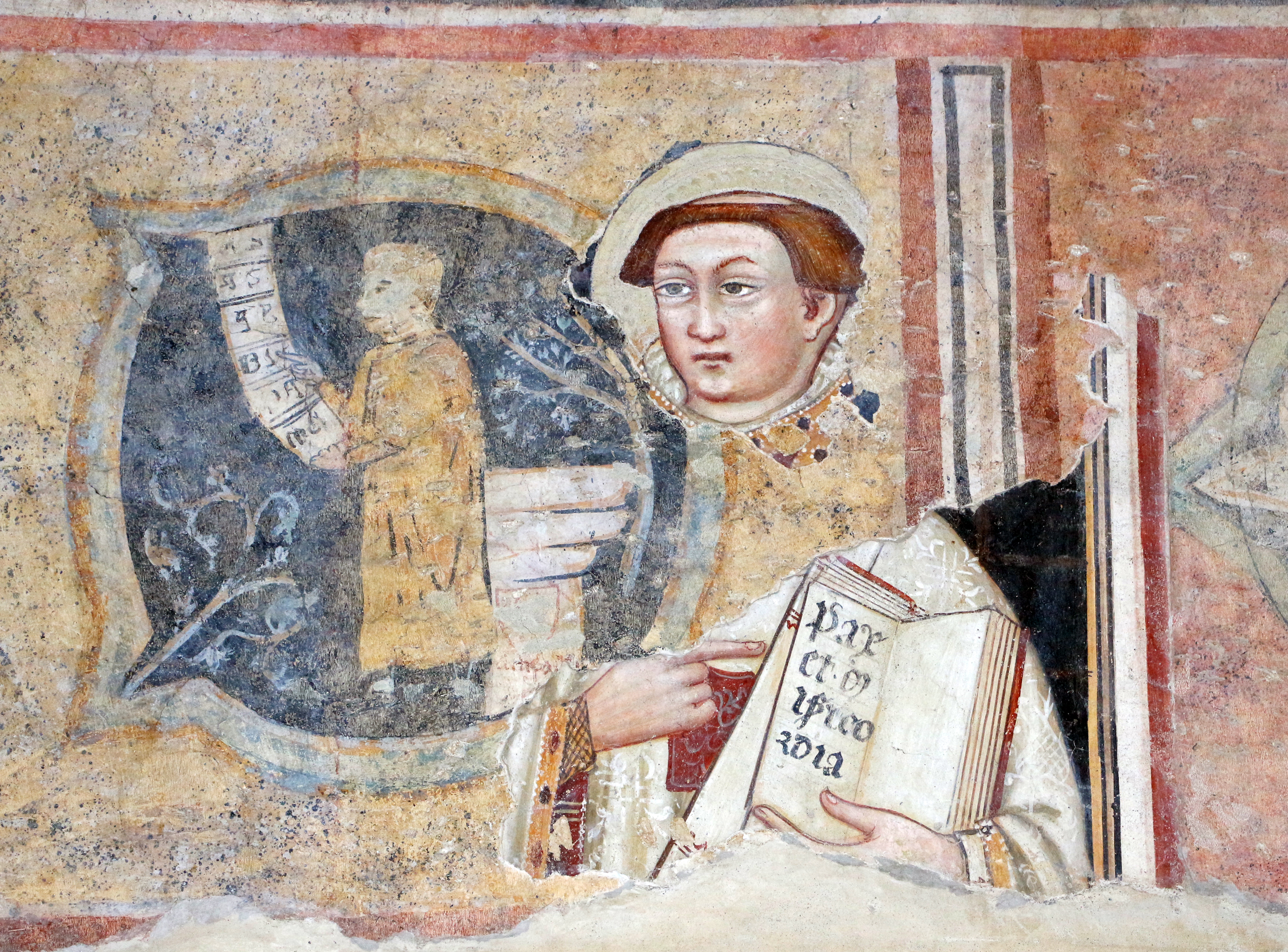 Palazzo della Curia Vescovile (Bergamo)